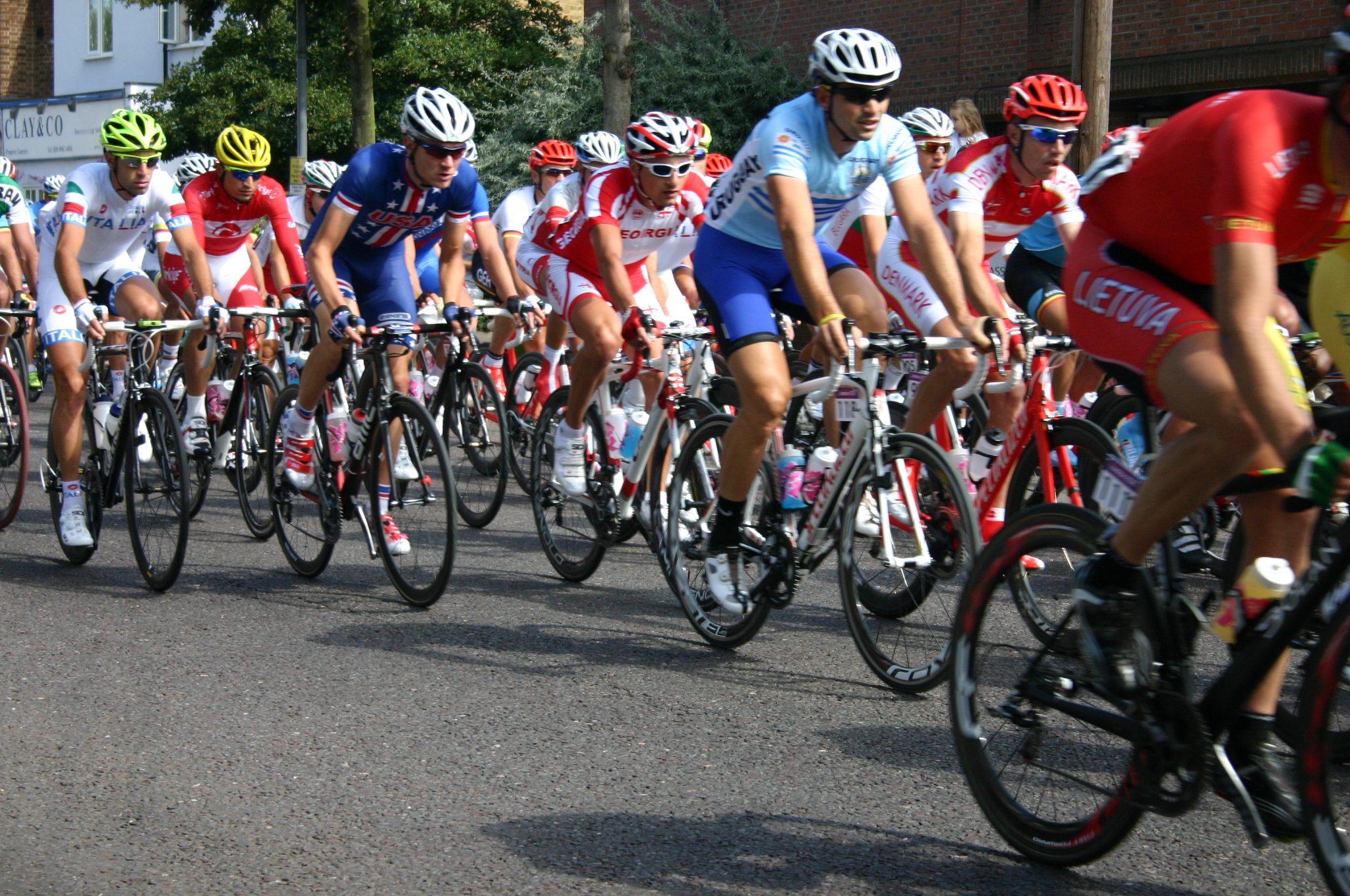 men's race in Waldegrave rd Teddington